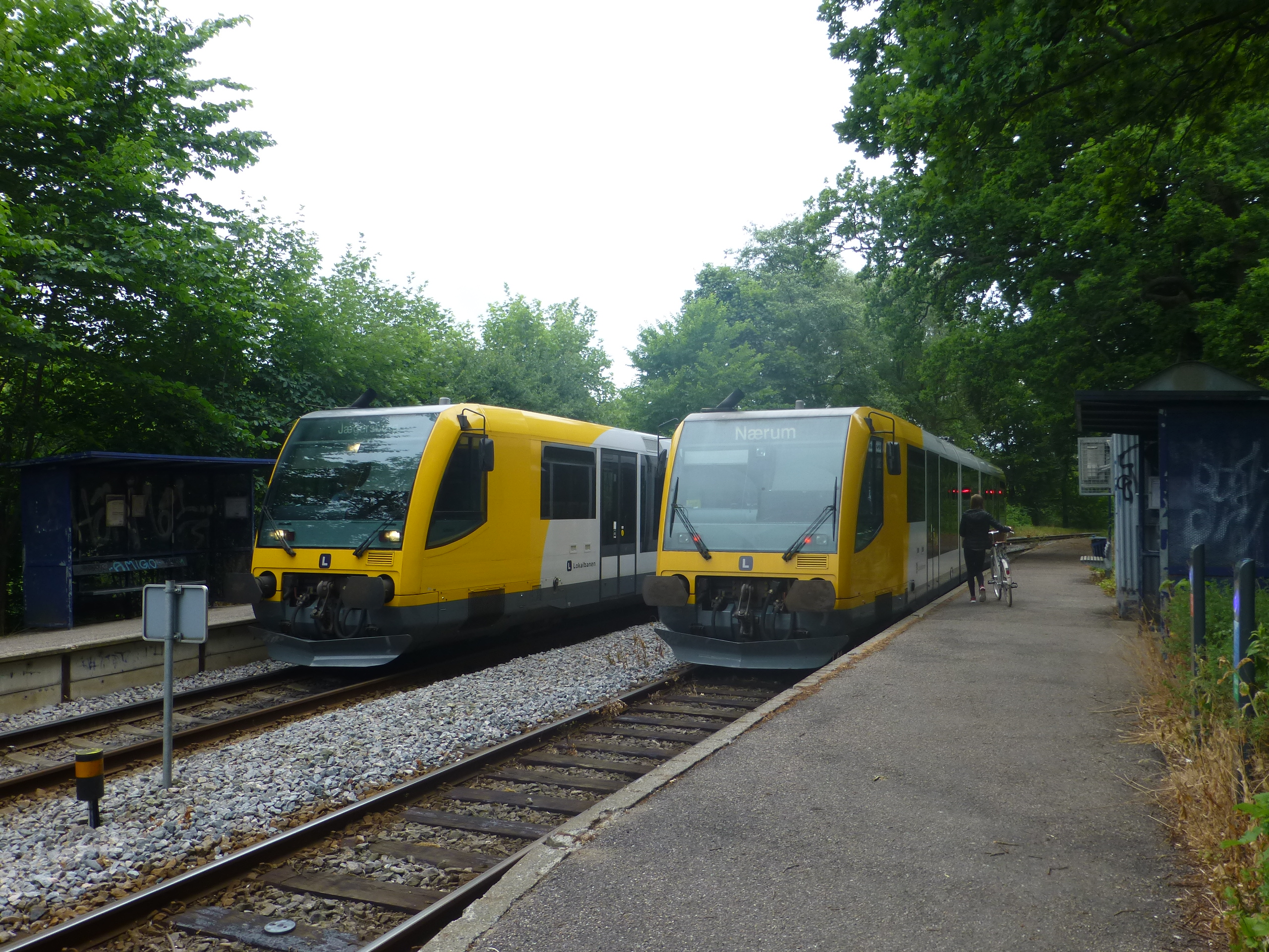 Fuglevad Station on the private railway Nærumbanen between Jægersborg and Nærum in Copenhagen.